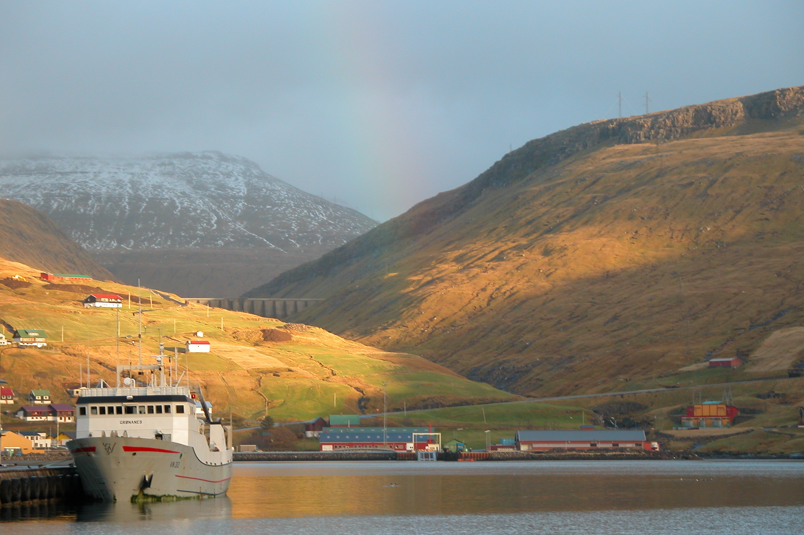 Vestmanna on Streymoy, Faroe Islands